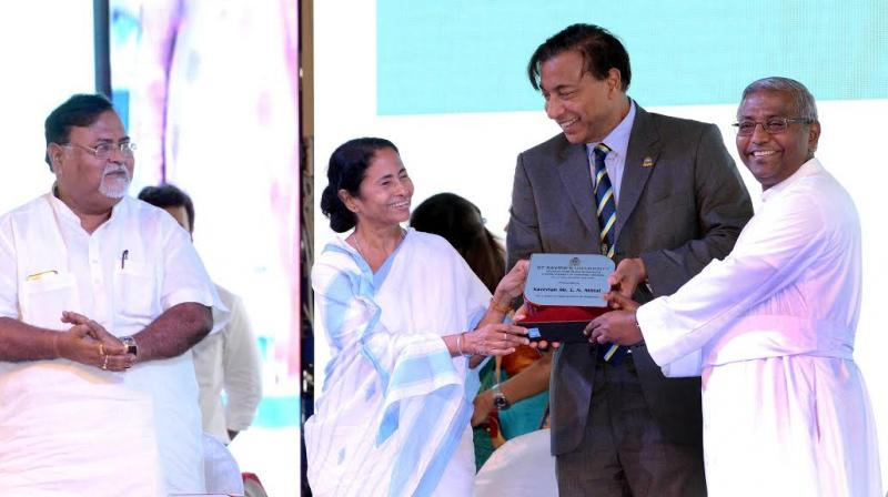 Hon'ble Chief Minister Mamata Banerjee and Lakshmi Niwas Mittal with Father Felix Raj